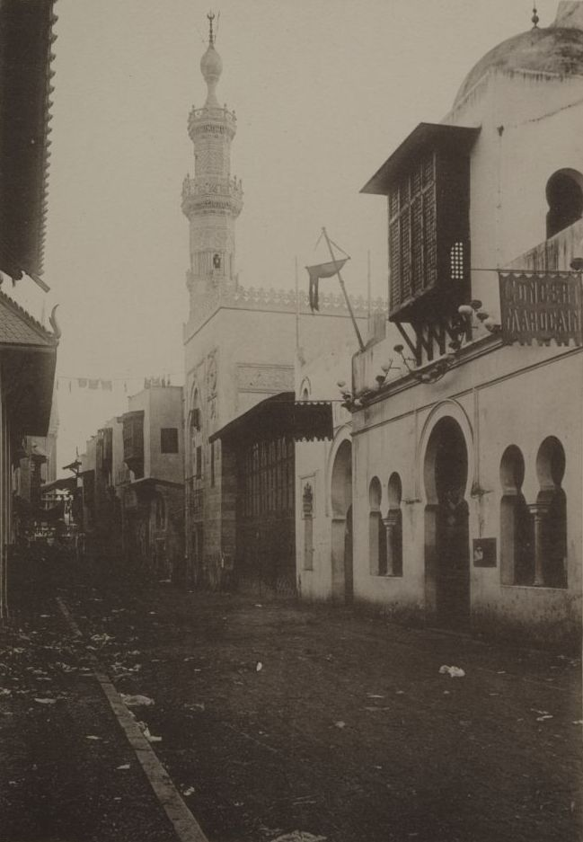 Entrance to a small mosque with a minaret in the background. Black-and-white photograph.